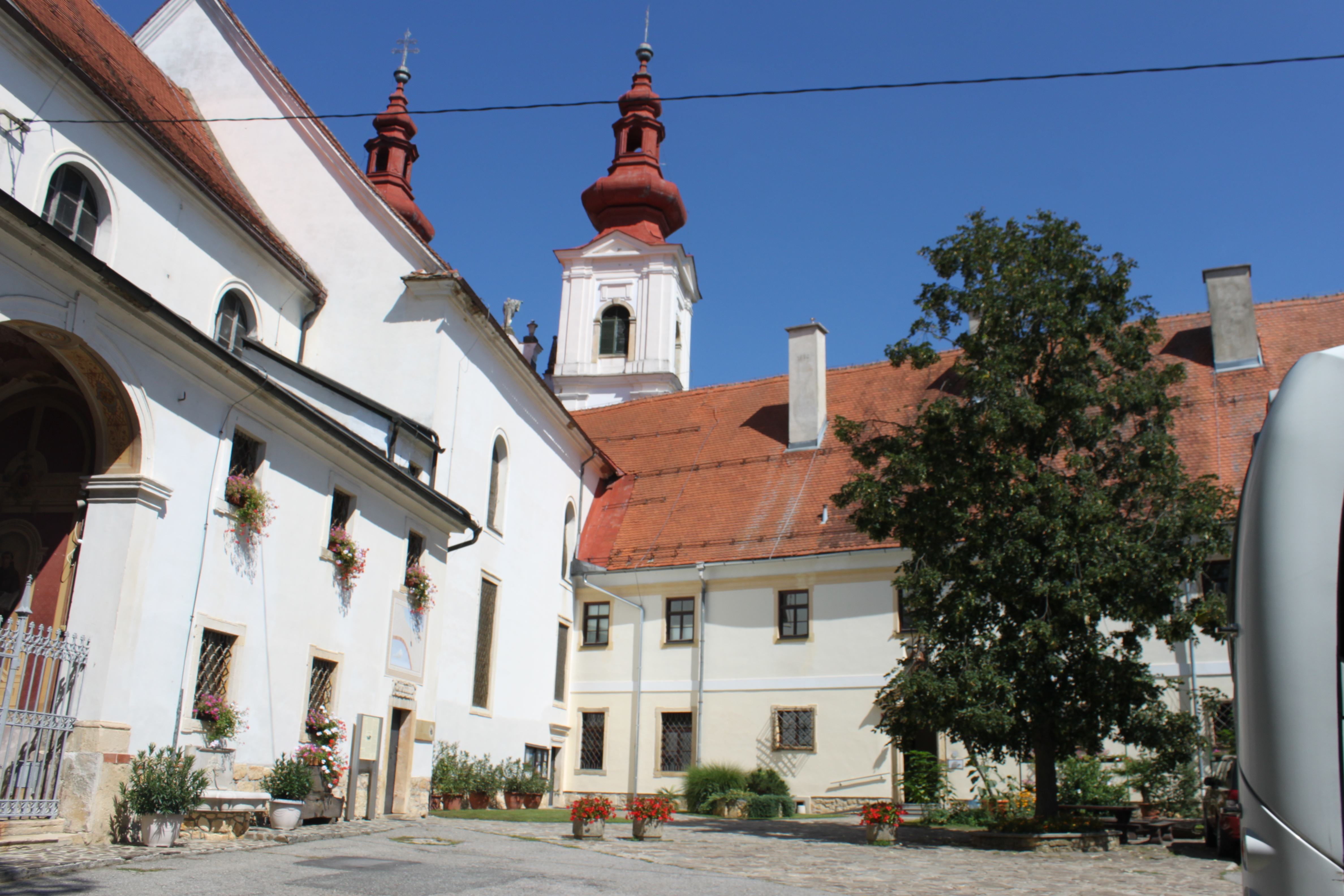 Franciscan monastery Holy Trinity in Heilige Dreifaltigkeit in denWindisch Büheln (Sveta Trojica v Slovenskih Goricah), Slovenia; monastery court